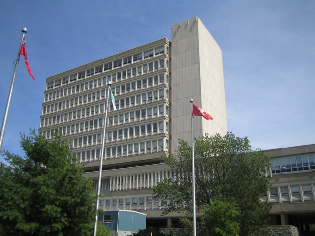 R.D. Parker Building